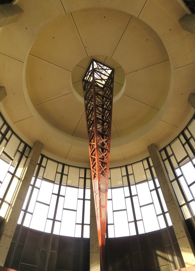 Cropped by uploader. See source link.